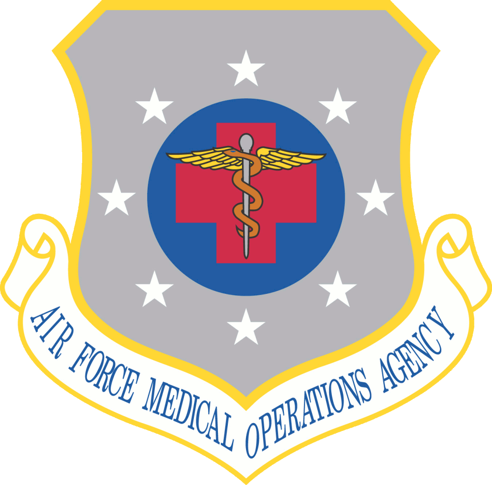 Emblem of the Air Force Medical Operations Agency of the United States Air Force